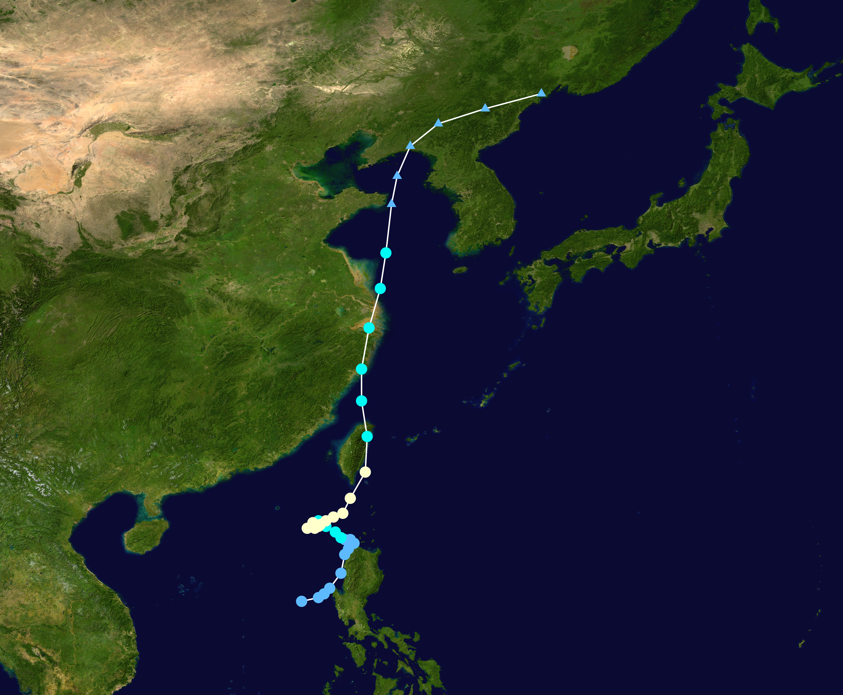 Track map of Typhoon Kai-tak of the 2000 Pacific typhoon season. The points show the location of the storm at 6-hour intervals. The colour represents the storm's maximum sustained wind speeds as classified in the Saffir–Simpson scale (see below), and the shape of the data points represent the nature of the storm, according to the legend below. Saffir–Simpson scale Tropical depression≤38 mph≤62 km/h Category 3111–129 mph178–208 km/h Tropical storm39–73 mph63–118 km/h Category 4130–156 mph209–251 km/h Category 174–95 mph119–153 km/h Category 5≥157 mph≥252 km/h Category 296–110 mph154–177 km/h Unknown Storm type Tropical cyclone Subtropical cyclone Extratropical cyclone / Remnant low / Tropical disturbance / Monsoon depression